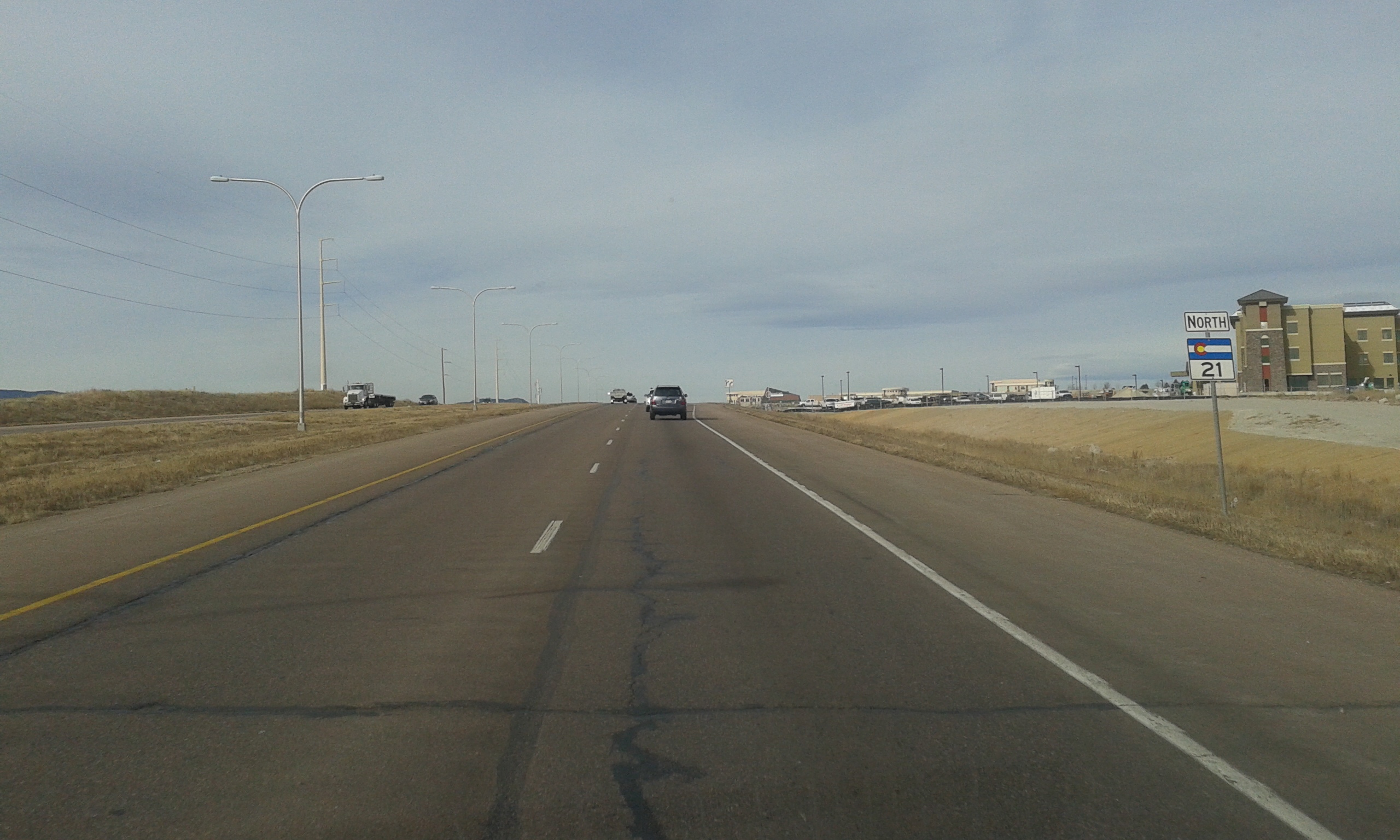 CO 21 NB reassurance sign after Research Parkway in Colorado Springs